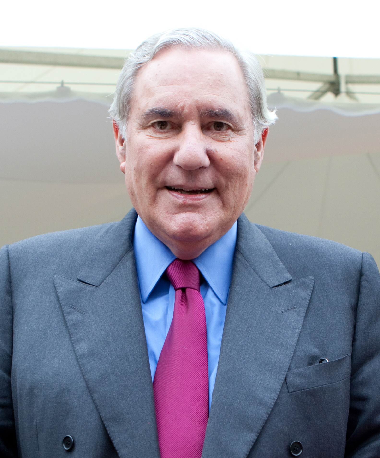 Glen Moreno at FT Summer Party 2011